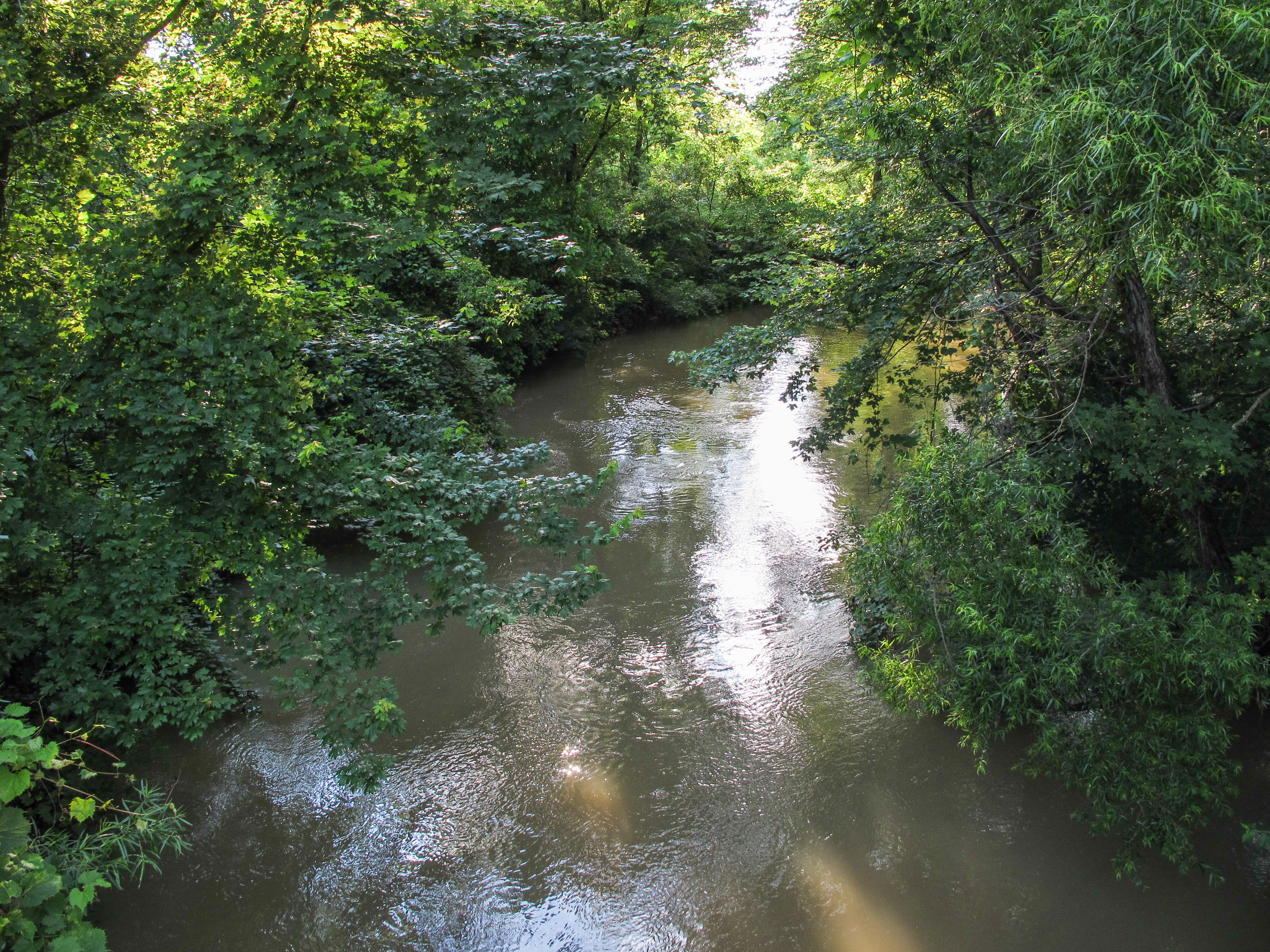 The Little River Raisin near its mouth, as viewed upstream from a bridge on Davis Road in Dundee Township in Monroe County, Michigan, southwest of the village of Dundee.